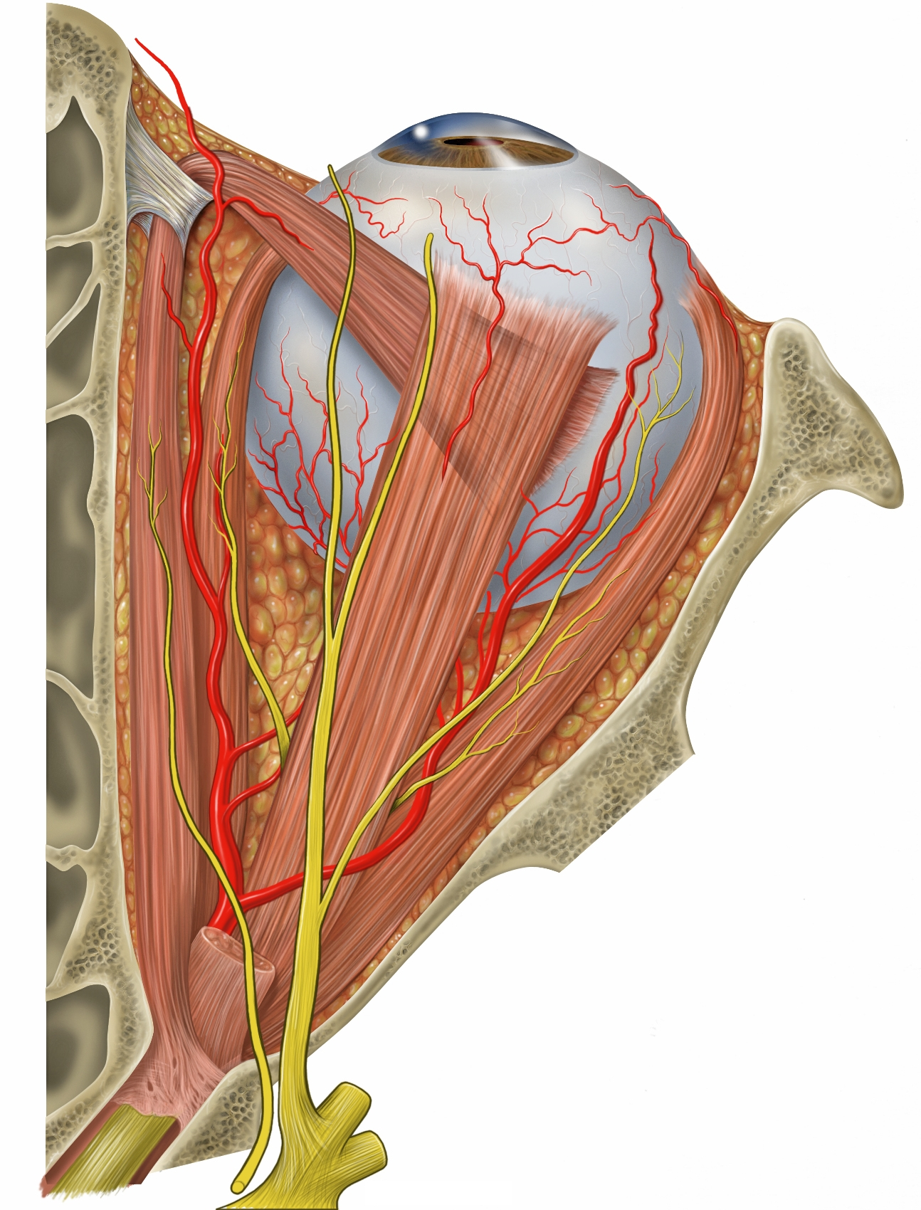 Eye and orbit anatomy, superior view